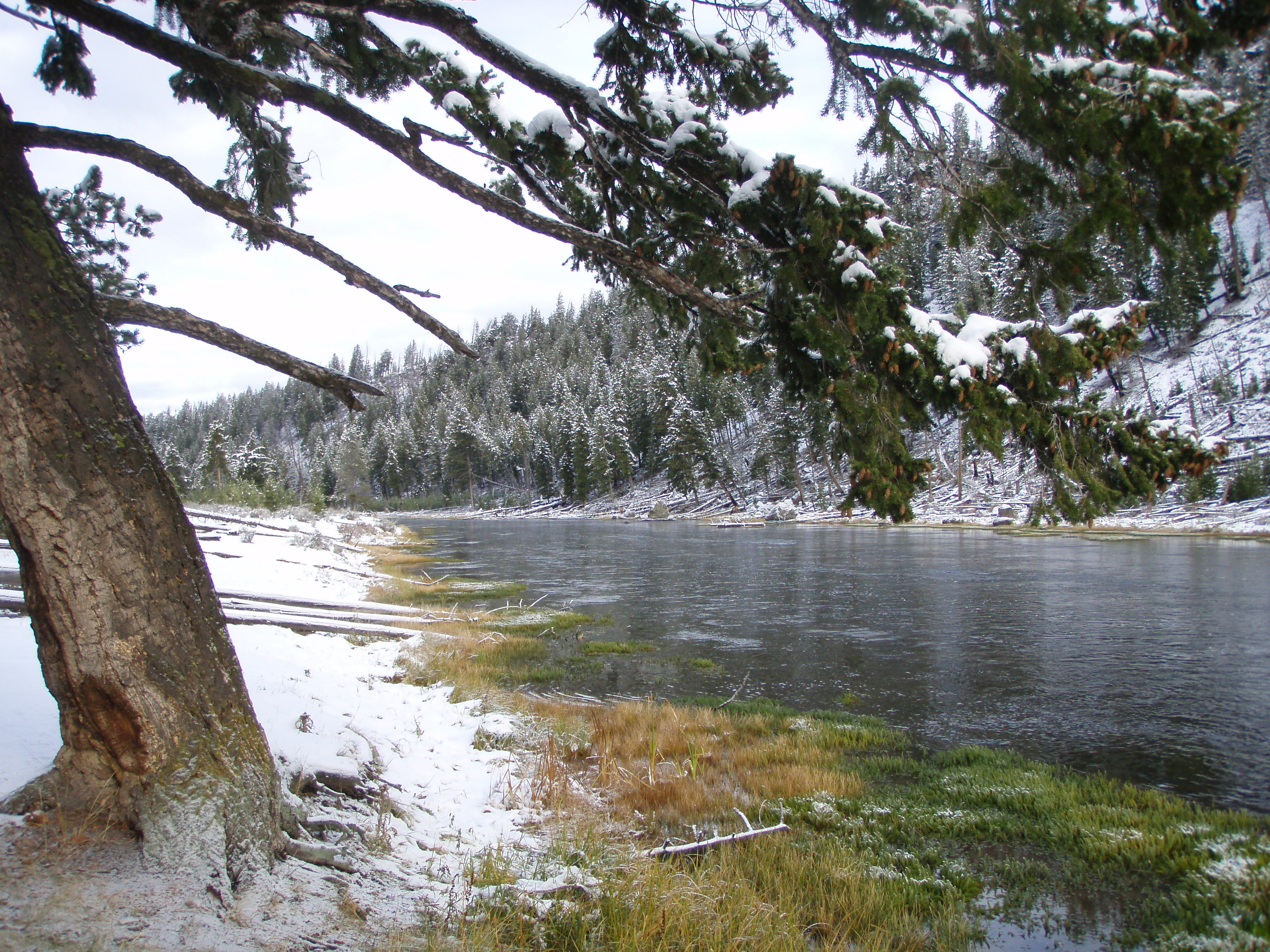 Madison River Below Seven Mile Bridge In October